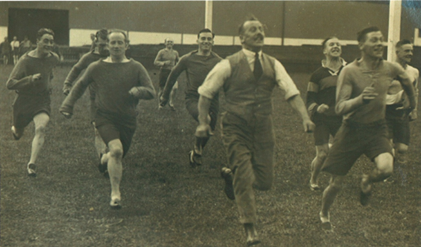 Joe Palmer (football manager) leads a training session whilst manager of Bristol Rovers